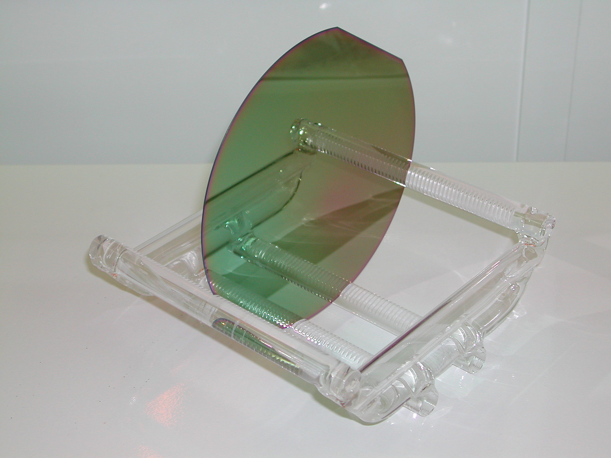 Holder for 200 mm wafers made in welded glass, for annealings.